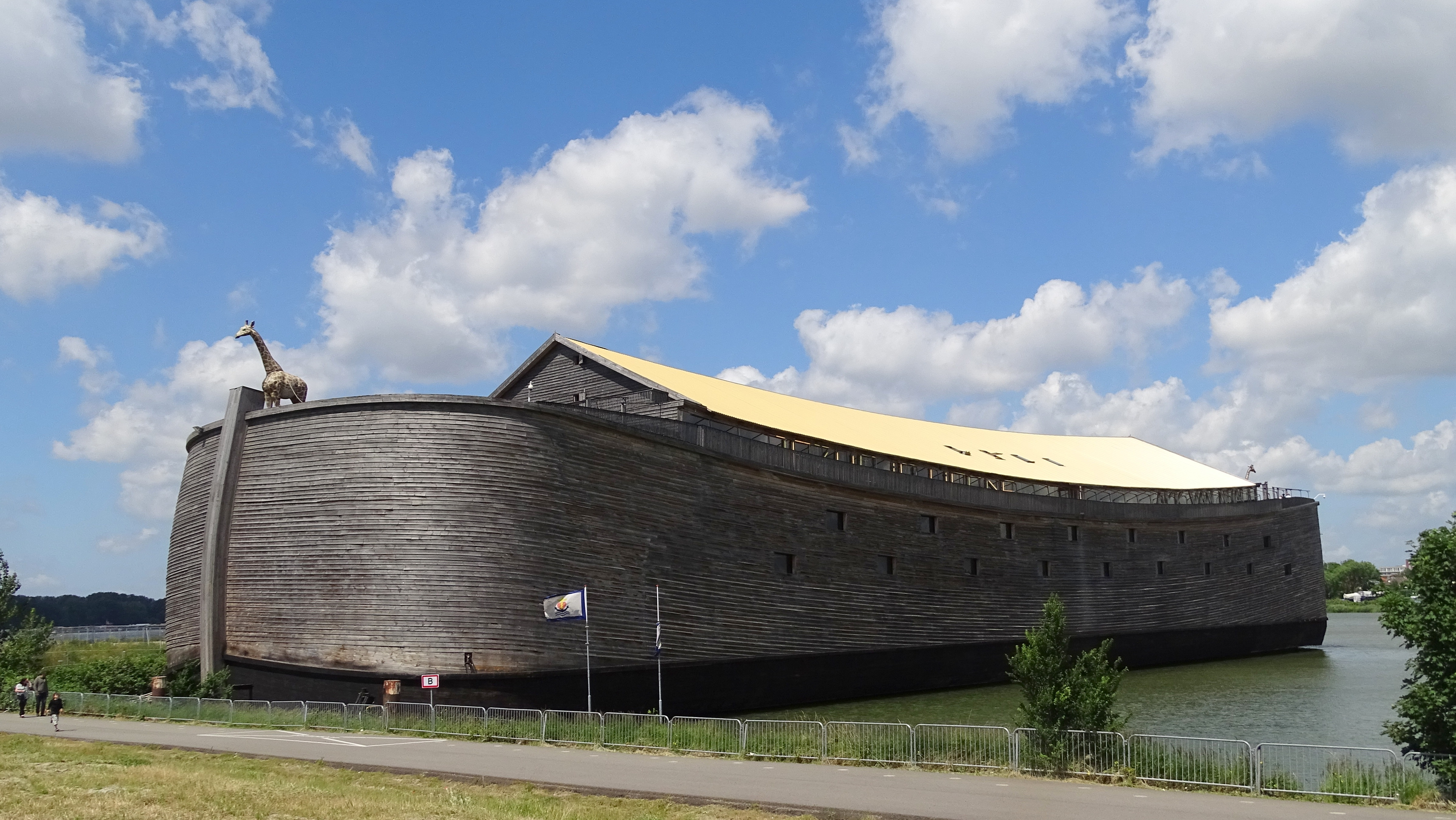 Noah's Ark replica in Dordrecht, The Netherlands